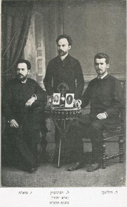 Menaḥem Mendel Dolitzki (right), with (left to right) Hebrew writers Iakov Maze and Leon Rabinovich, editor of the Hebrew newspaper Ha-Melits, 1885. Among the portraits of other Hebrew writers on the table is (center) one of Perets Smolenskin.